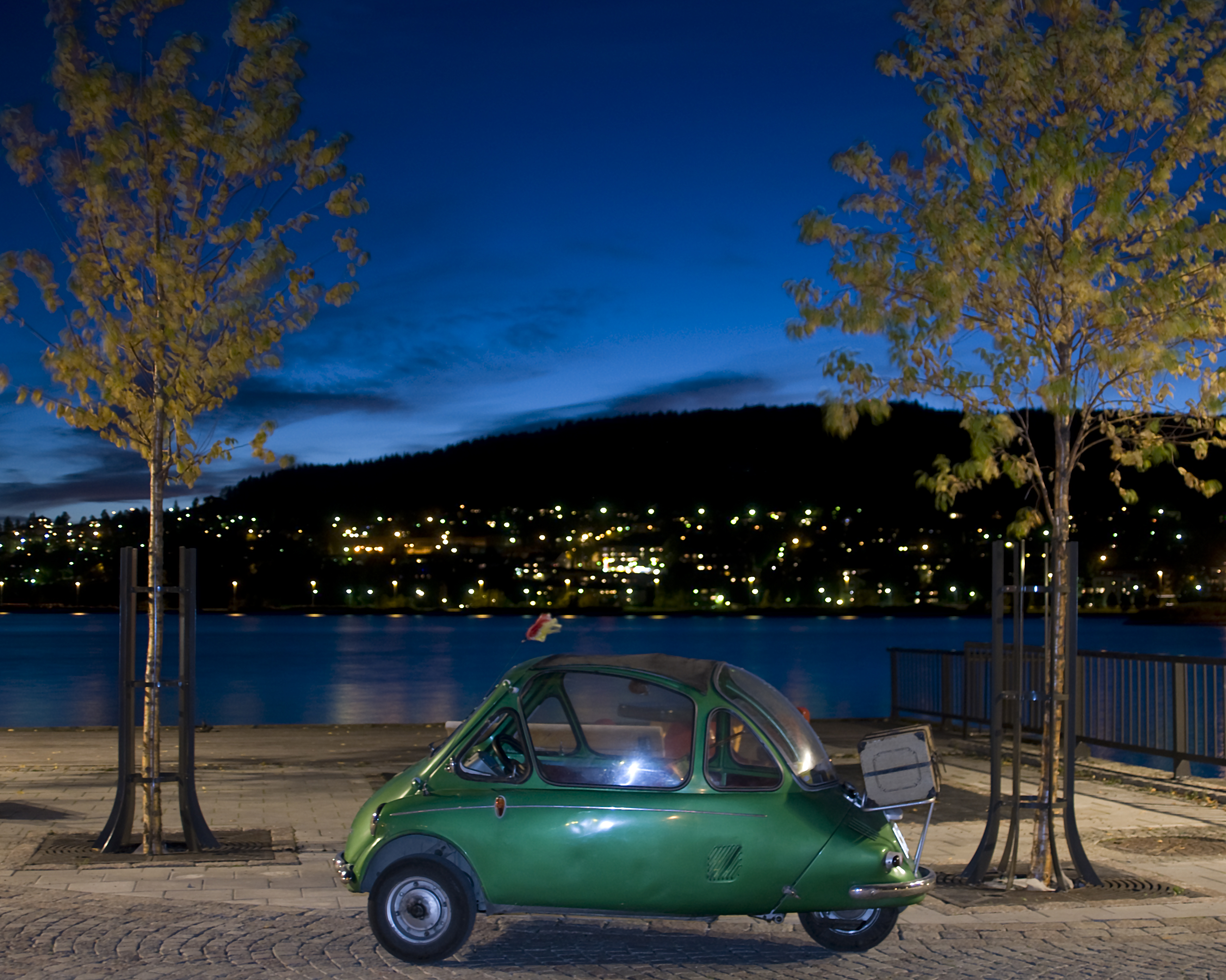 A microcar, Heinkel Trojan from 1962. Photo is taken i badhusparken in Östersund, Sweden.